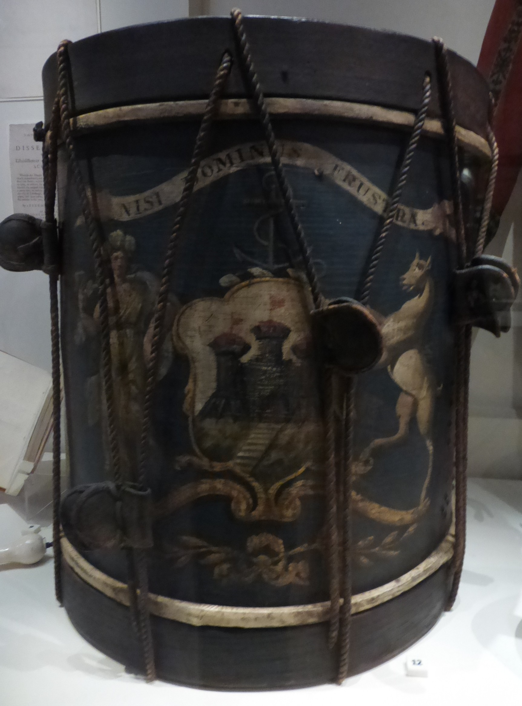 Drum of the Edinburgh Town Guard (late 18thC) bearing the city's coat of arms